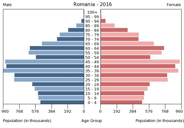 The population pyramid of Romania illustrates the age and sex structure of population and may provide insights about political and social stability, as well as economic development. The population is distributed along the horizontal axis, with males shown on the left and females on the right. The male and female populations are broken down into 5-year age groups represented as horizontal bars along the vertical axis, with the youngest age groups at the bottom and the oldest at the top. The shape of the population pyramid gradually evolves over time based on fertility, mortality, and international migration trends.